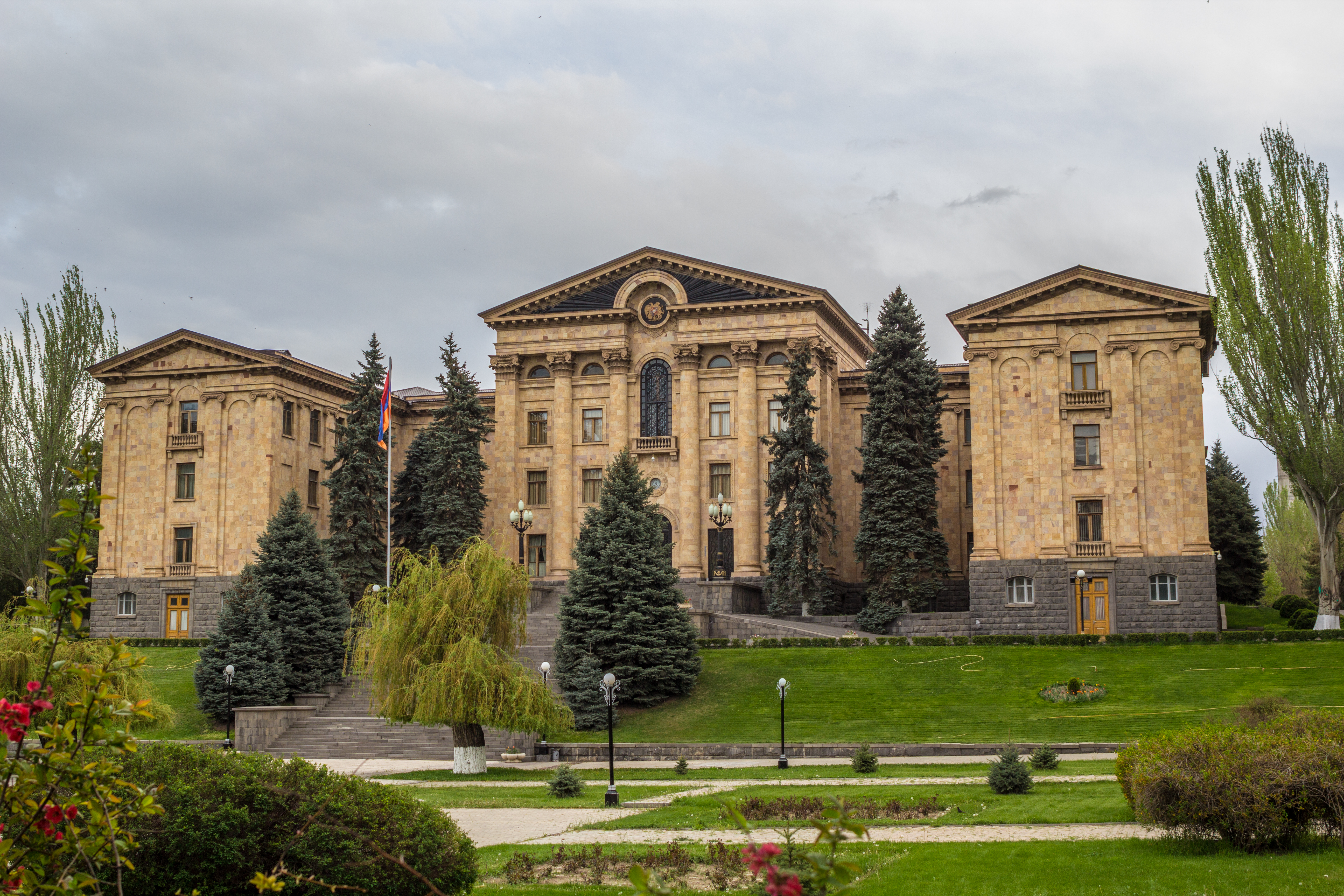 The National Assembly of Armenia (or Parliament building) in Yerevan.